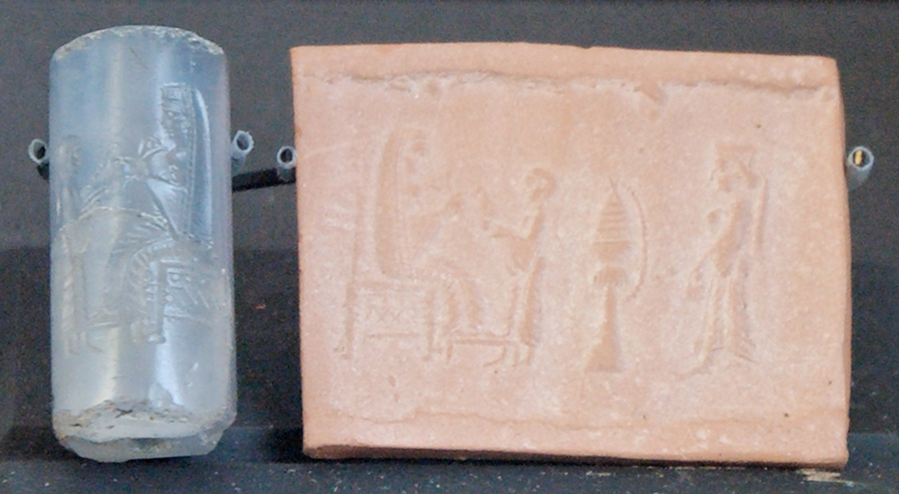 Cylinder seal with a harem scene, or a cult scene before goddess Anahita or the queen. Chalcedony, Achaemenid period (6th-4th centuries BC).